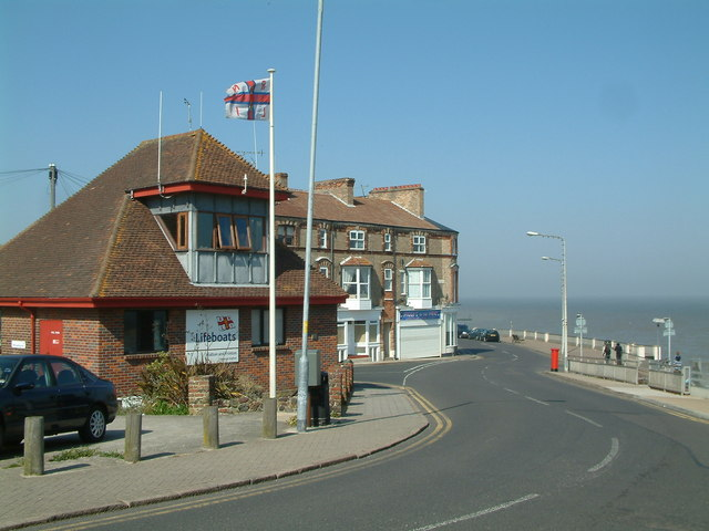 Lifeboat station The RNLI station was opened on 18th November 1884.